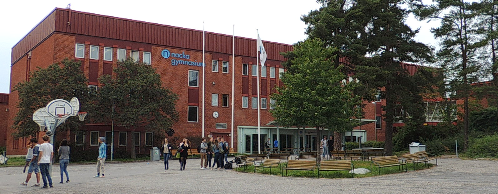 Nacka gymnasium, Nacka, Sweden in September 2014.